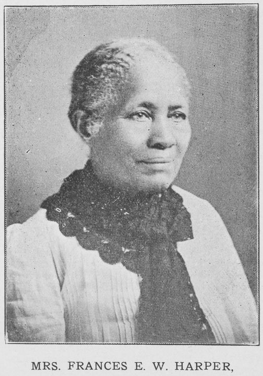 Frances Ellen Watkins Harper